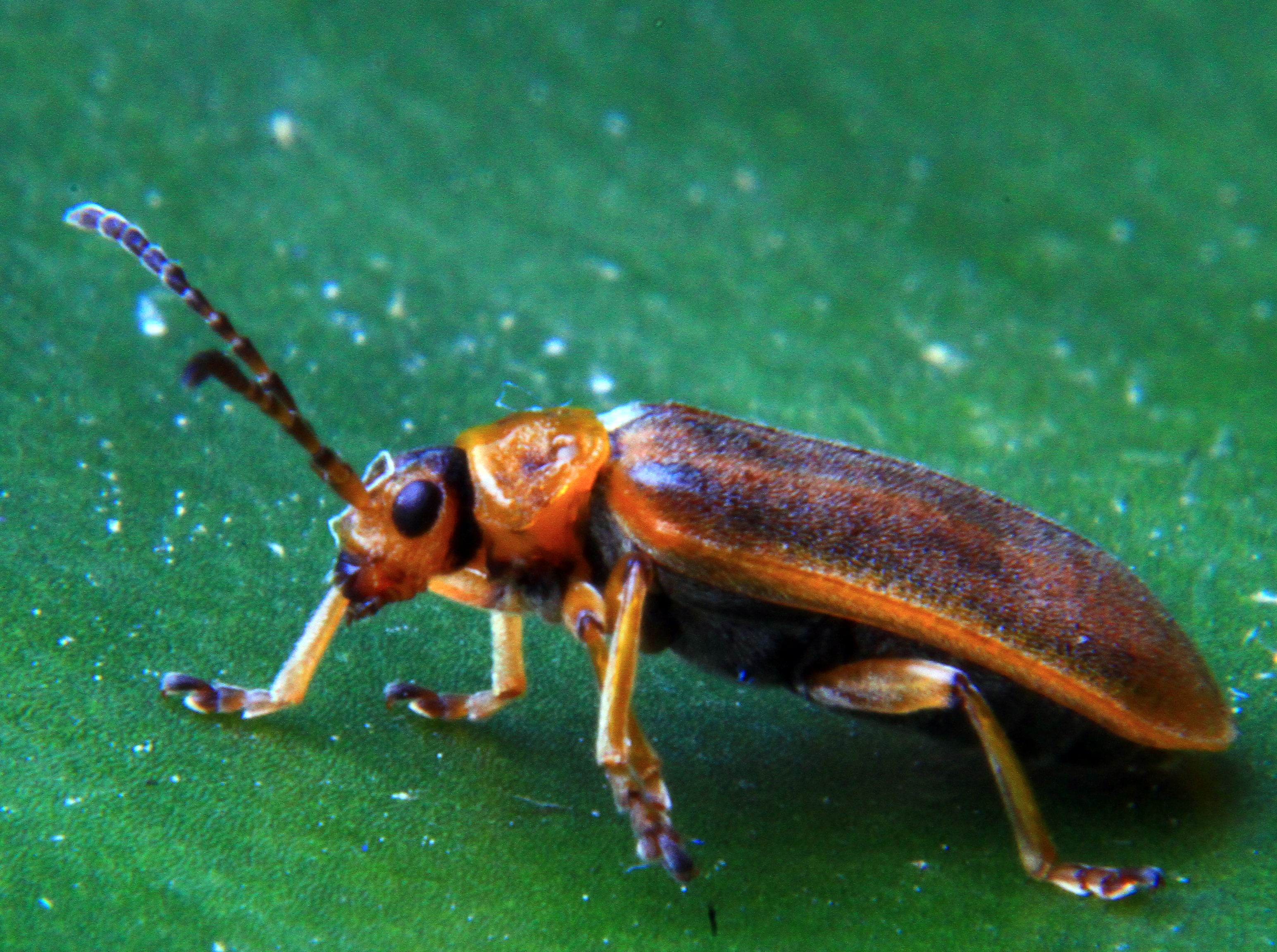 Waterlily leaf beetle (Galerucella nymphaeae) from the Osterseen Lakes, Bavaria, Germany